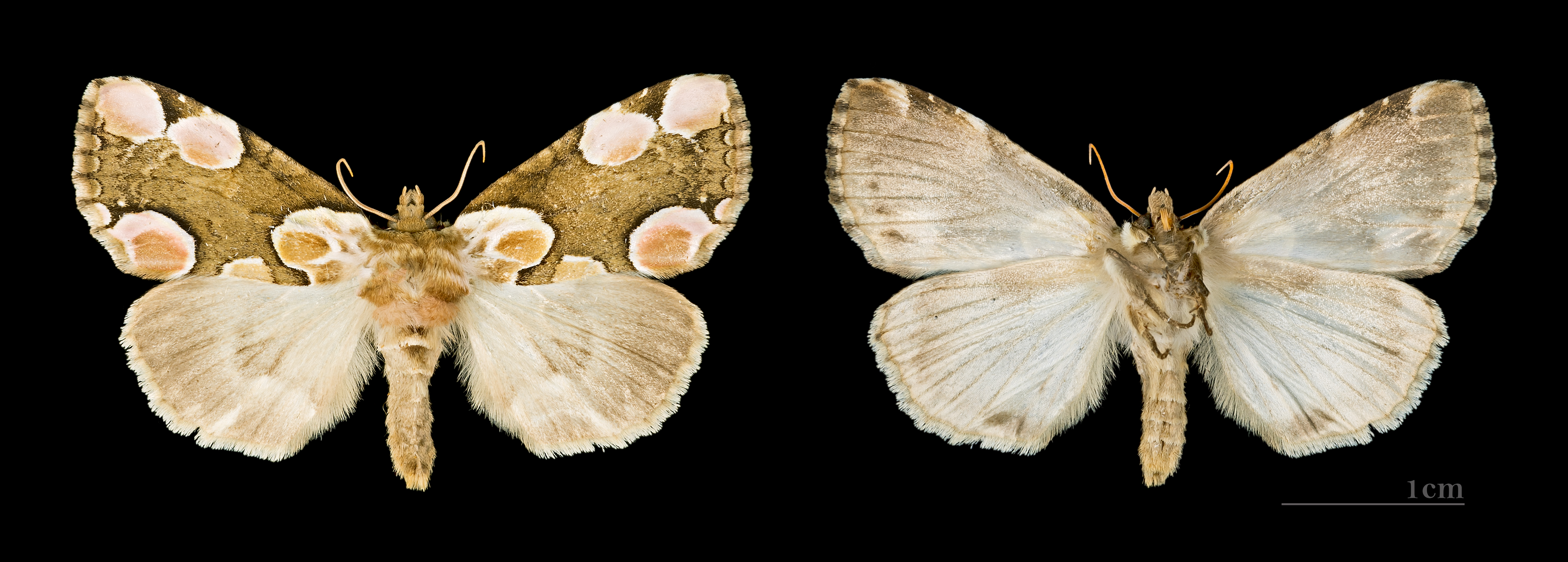 Peach Blossom. Two views of same specimen